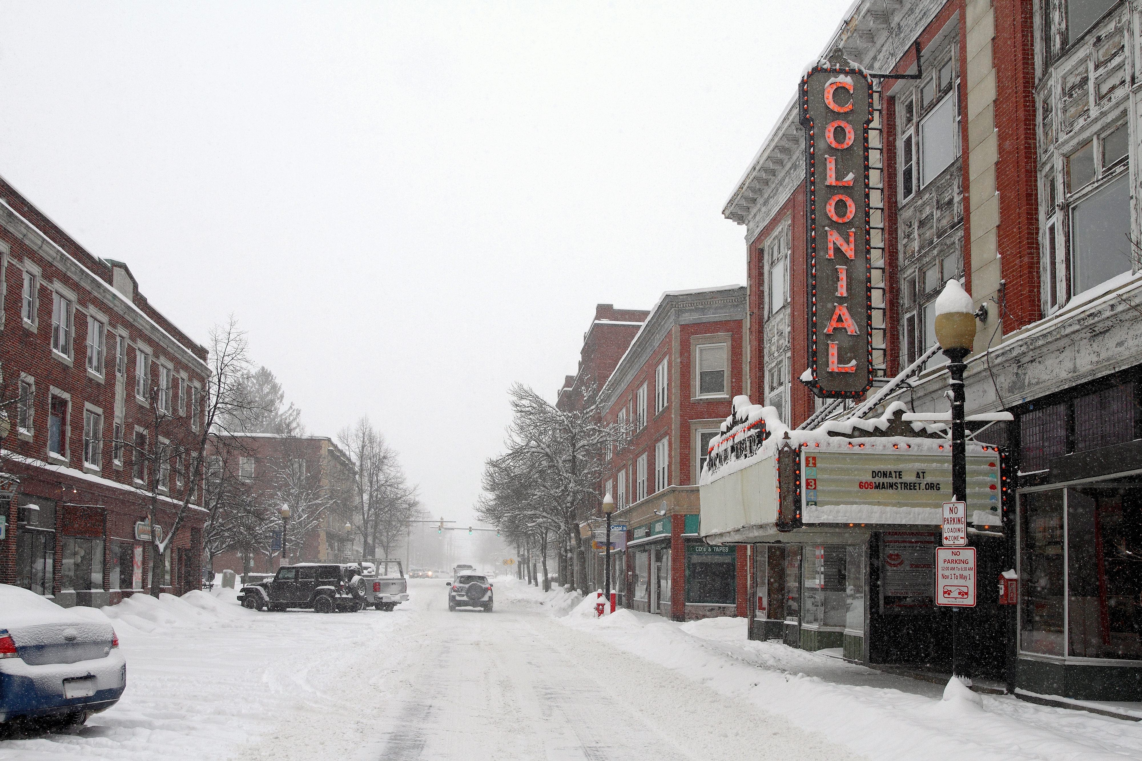 Main street in Laconia, New Hampshire, during a snowstorm.